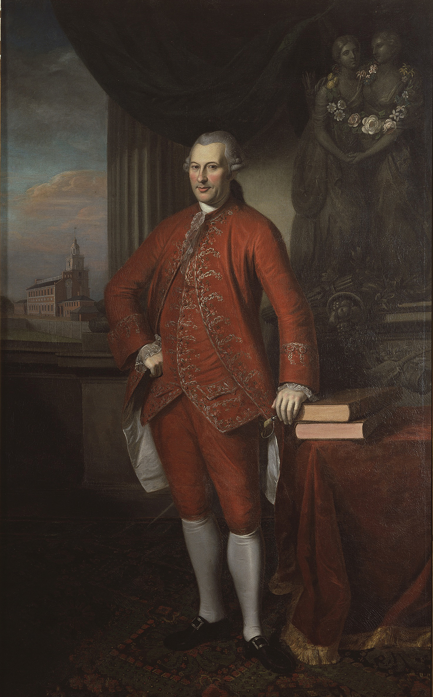 Conrad Alexandre Gérard